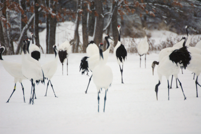 丹頂 (2006年1月北海道鶴居村鶴見台で撮影) Photographer:ほくなん, This work is in PD